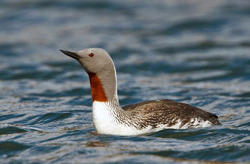 A adult Red-throated Loon in breeding plumage swimming in Iceland.